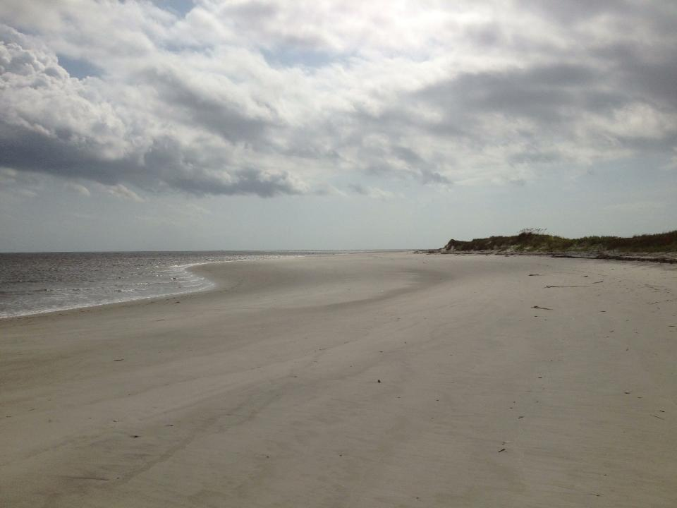 This photo is taken from the beach side of Deveaux Bank looking south. The bank has about two miles of sandy beach on the north and east sides and this is about halfway down the east side. Landings are permitted only below the high water line by state authorities which is where this photo was taken.